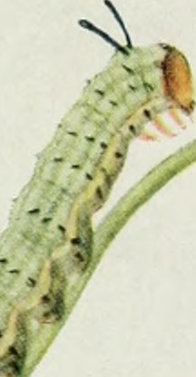 Title: The American Museum journal Year: c1900-(1918) (c190s) Authors: American Museum of Natural History Subjects: Natural history Publisher: New York : American Museum of Natural History Text Appearing Before Image: ' Text Appearing After Image: / S "^ DryocQmpQ rubicunda TWO MOTHS AND THEIR CATERPILLARS The io moth is related to the luna, cecropia, and other large moths. It is not \ery large, howe\er, as the illustration shows. The sexes differ greatly in color. The larva; should be handled carefully, as their spines are sharp and are connected with glands which secrete an irritating fluid. They feed on a great variety of plants, including com, and, when young, "follow the leader," spinning a silken path for the guidance of those which are behind. The thin, semitiansparent, brown cocoon is spun among leaves on the ground. Although variable in color, the rosy maple moth, /l i uhicitnda, may be known by its being a tluffy combination of rose color and pale yellow, often tinged with pink. The lar\a feeds on maple and pupates underground